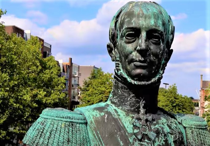 The Willem II monument in Tilburg, is also called 'the statue on the square'. It is a monument in the Brabant city of Tilburg, which recalls the time when the king was meaningful here. Tilburg was a city far away from the Dutch government, where the King felt more free. Willem II has invested a lot in Tilburg. Which means, among other things, a Royal Palace and a Royal Lanciers' Barracks. Willem II now also bears the title 'King Bi', because he would have had gay affairs. The Willem II Monument is therefore also a monument for gay tolerance in the Netherlands.